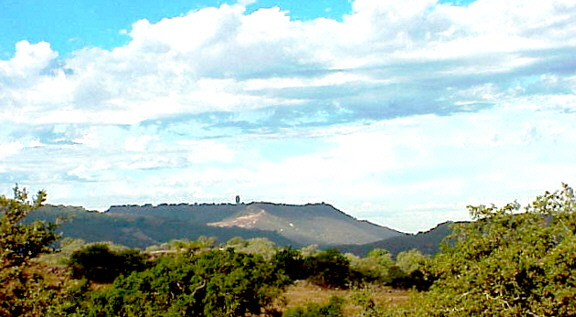 Looking west at Redonda Mesa from Tenaja's Via Volcano.